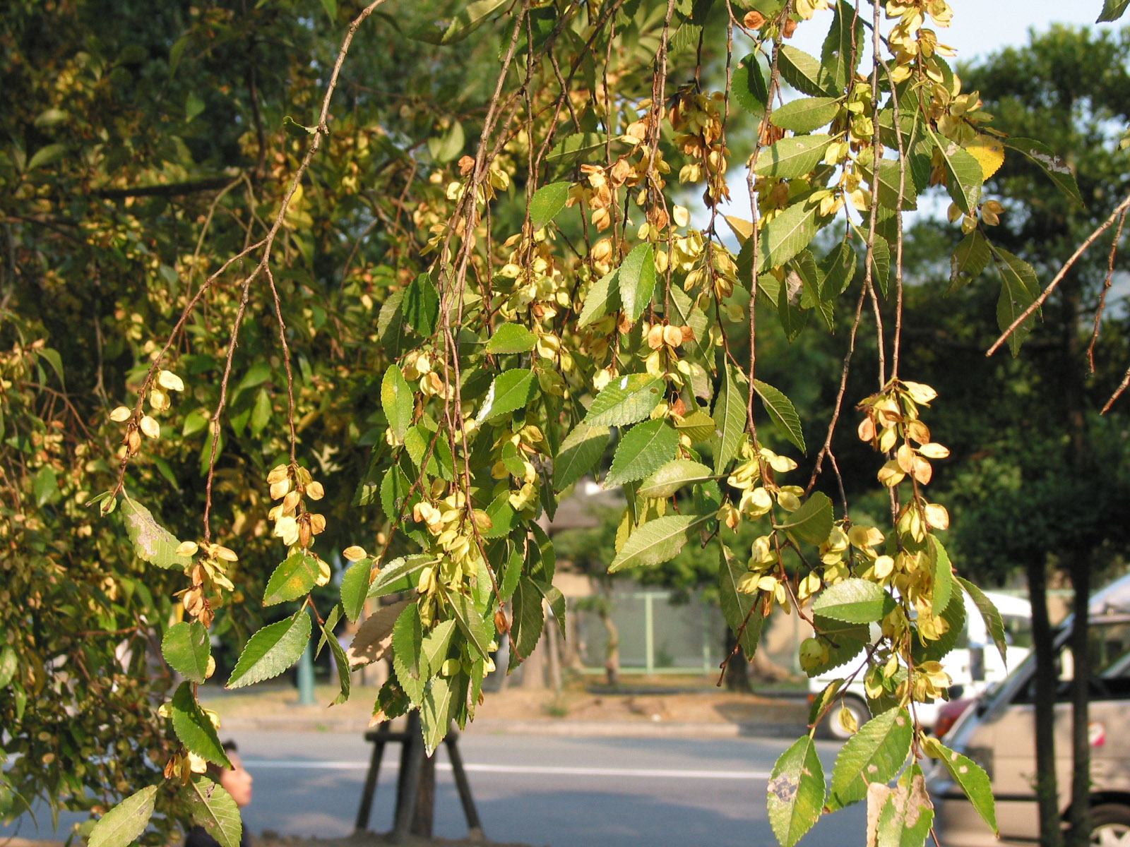 Ulmus parvifolia seeds. Place:Okazaki Park Kyoto Pref. Japan